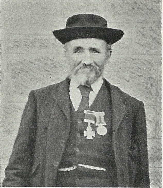 Solomon Black, N.Z.C. Constable Black (No 1 Division Armed Constabulary) was awarded the New Zealand Cross for his determined galantry in holding, with a few comrades, the precipitous ridge in rear of Ngatapa hill fort, 1869.